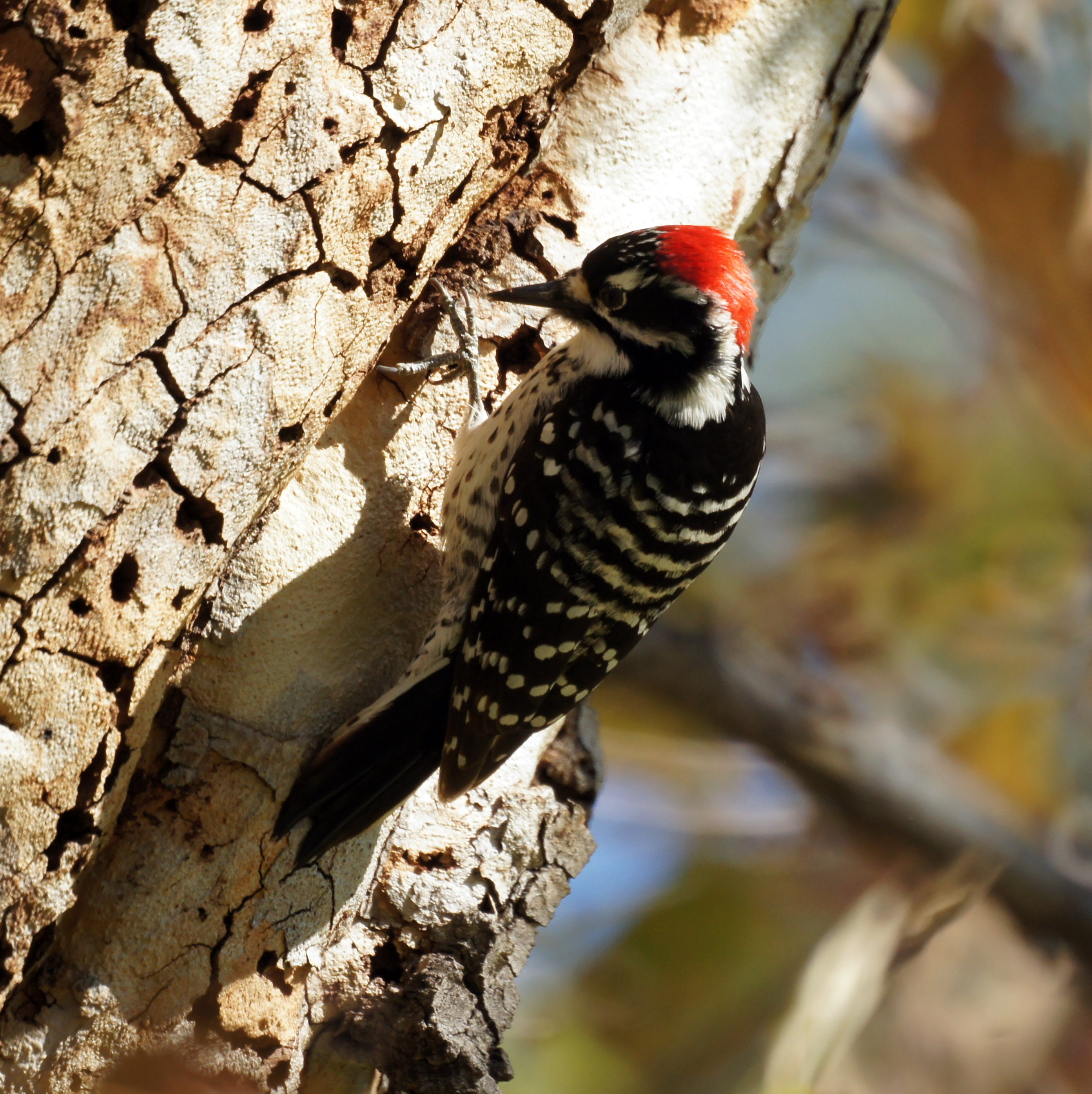 A male Nuttall's Woodpecker in Olive View, Sylmar, California, USA.